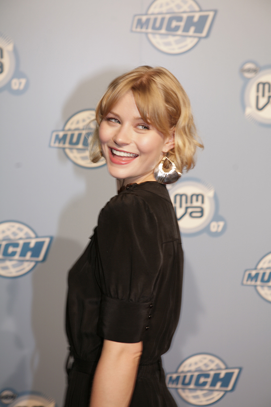 Emilie de Ravin was an attendee at the 2007 MuchMusic Video Awards, held the night of Sunday, June 17, 2007 in Toronto, Ontario, Canada.